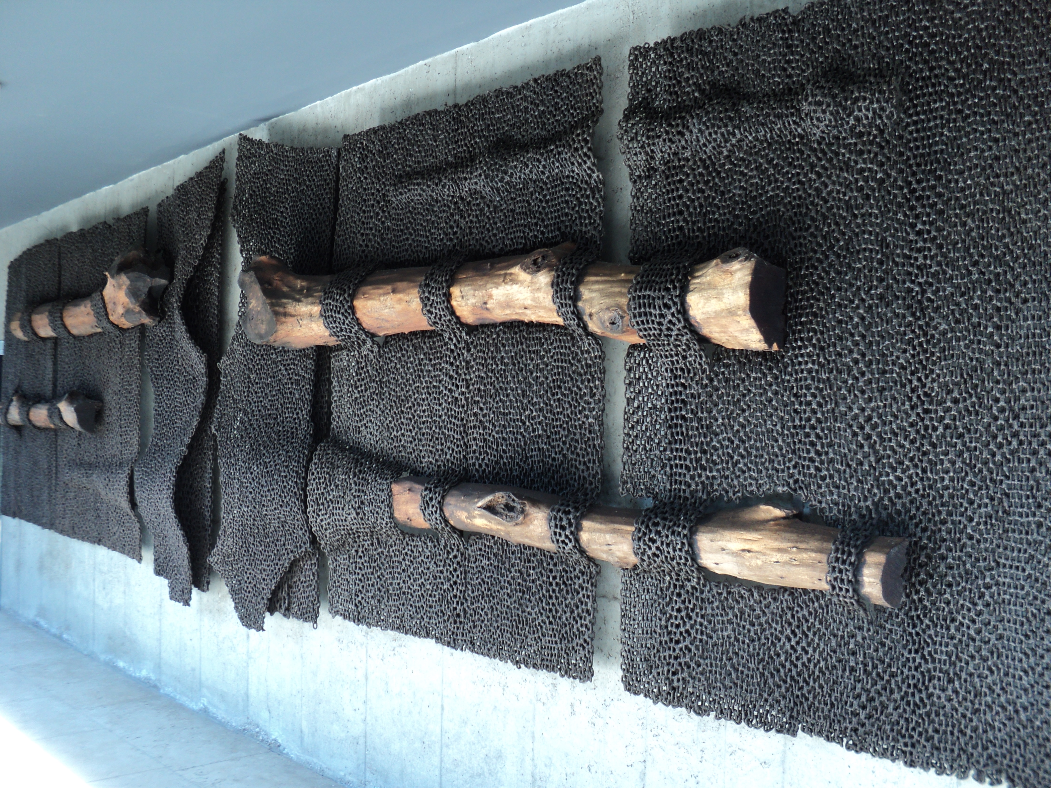 Memorial relief dedicated to victims of fascism killed in Jasenovac Concentration Camp. Designed by Dušan Džamonja.